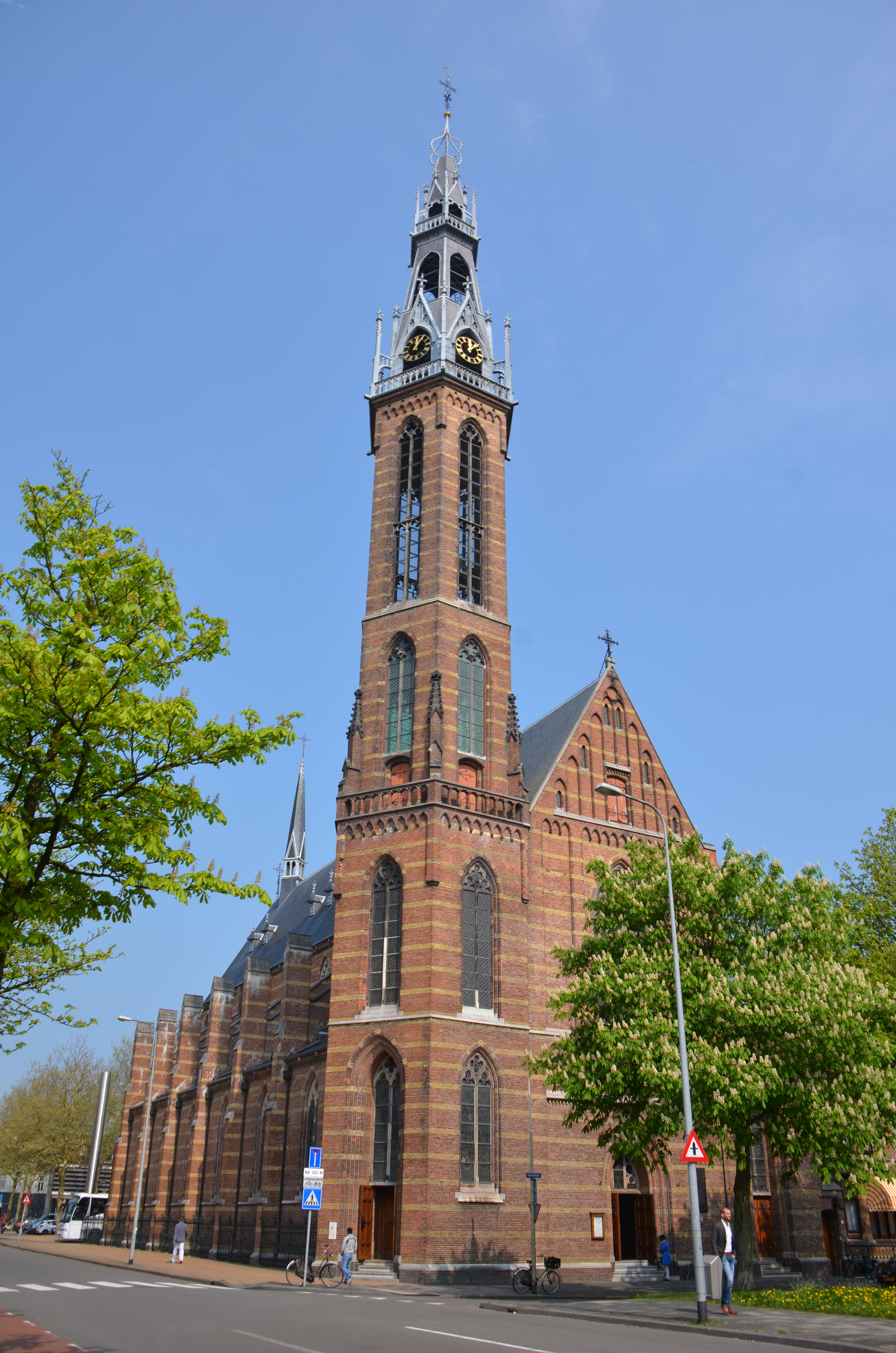 Catholic church Jozefkathedraal Groningen with its higly decorated tower